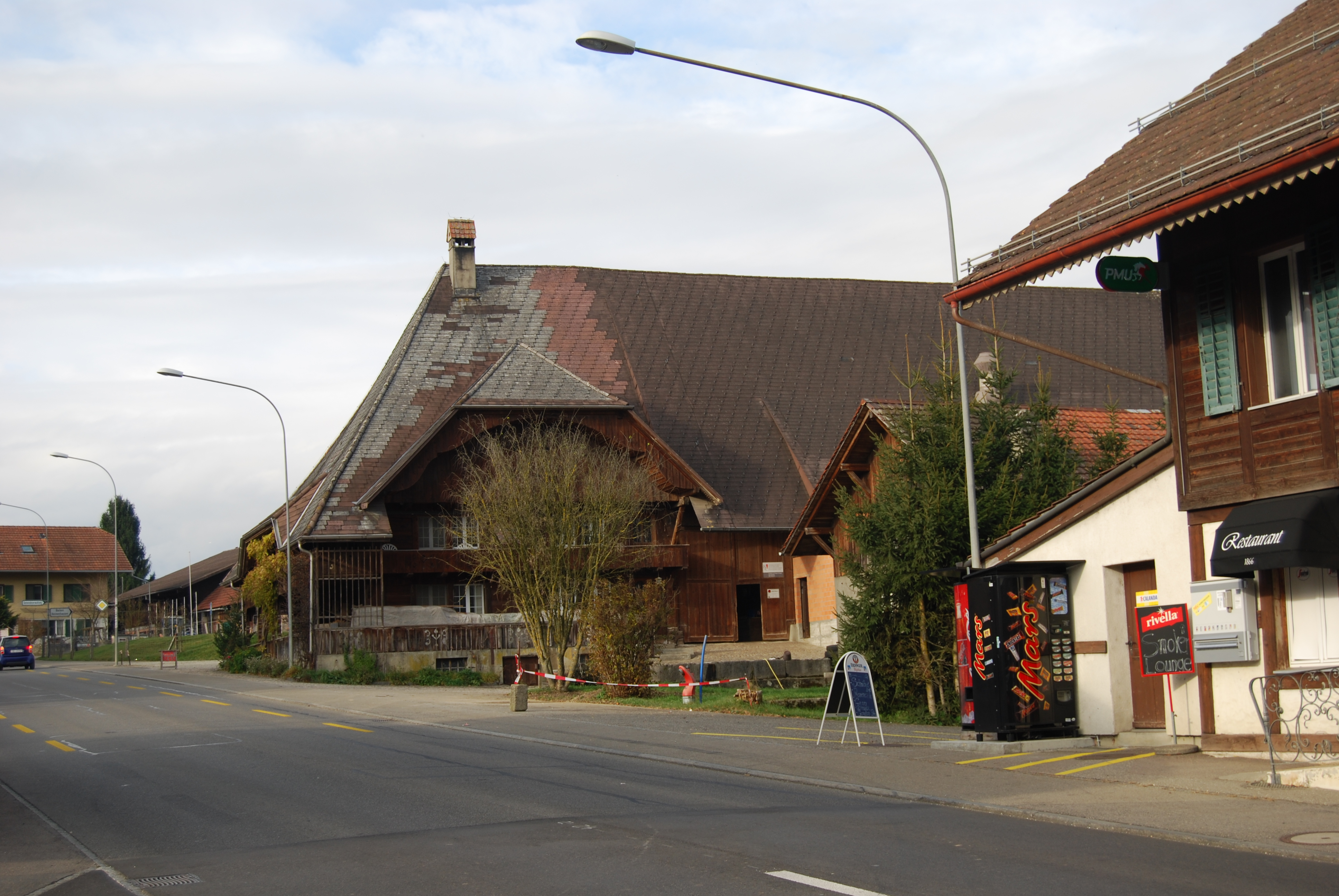 Wanzwil, municipality of Heimenhausen, canton of Bern, Switzerland